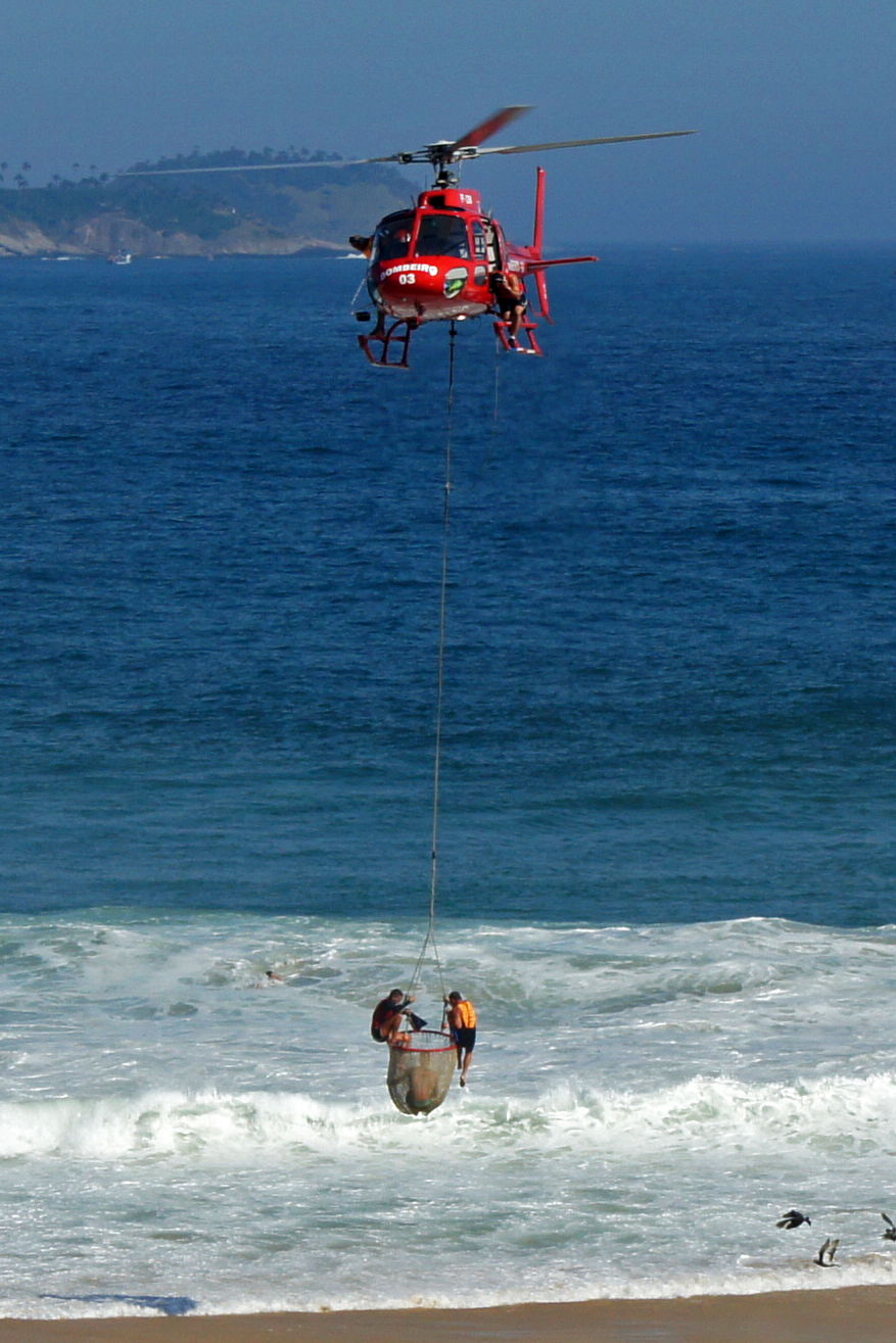 Chopper rescue at Ipanema beach, Rio de Janeiro, Brazil